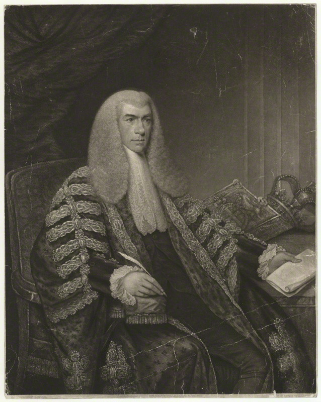 Portrait of Sir Henry Brougham, 1st Baron Brougham and Vaux, Lord Chancellor